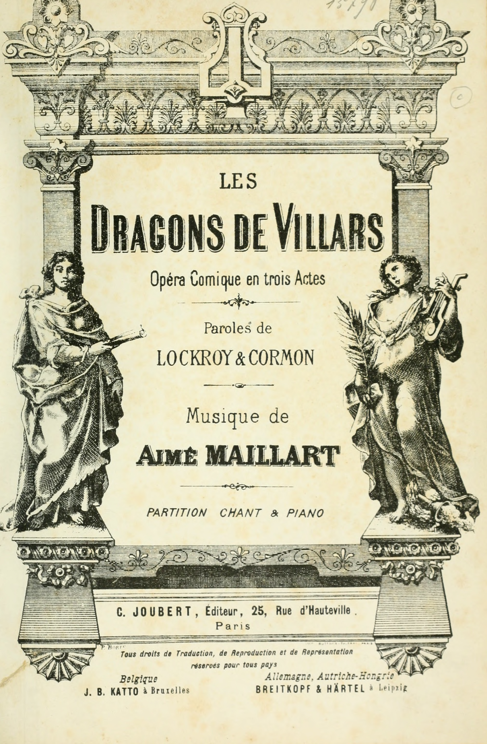 Vocal score of Aimé Millart's opera Les dragons de Villars